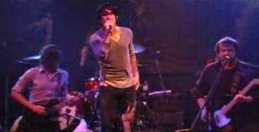 Framing Hanley live. Cropped and scaled image from original taken.